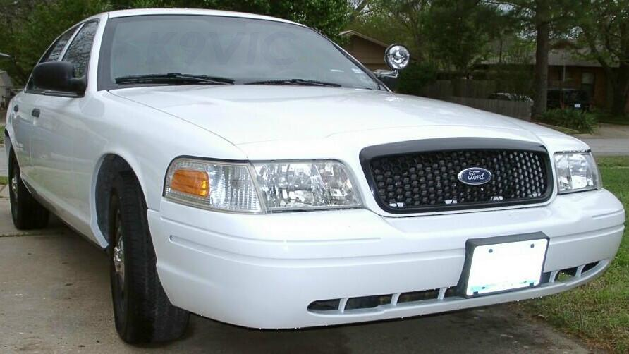 Crown Victoria Police Honey Comb Grille